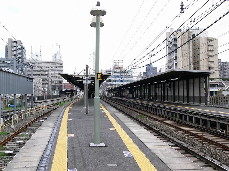 Keio railway Higashi-Fuchu station(東府中駅) platform.